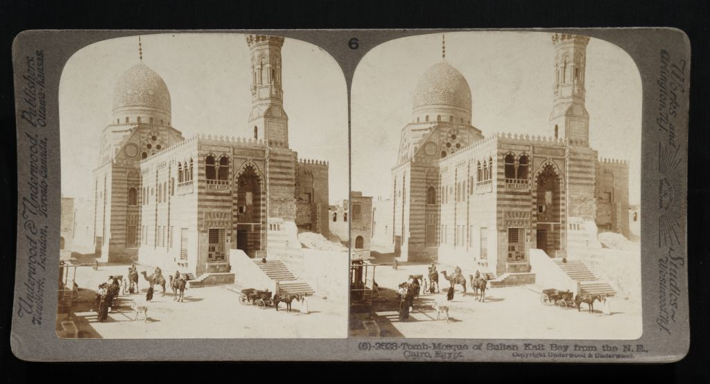 Men on camels and tending horses in front of tomb